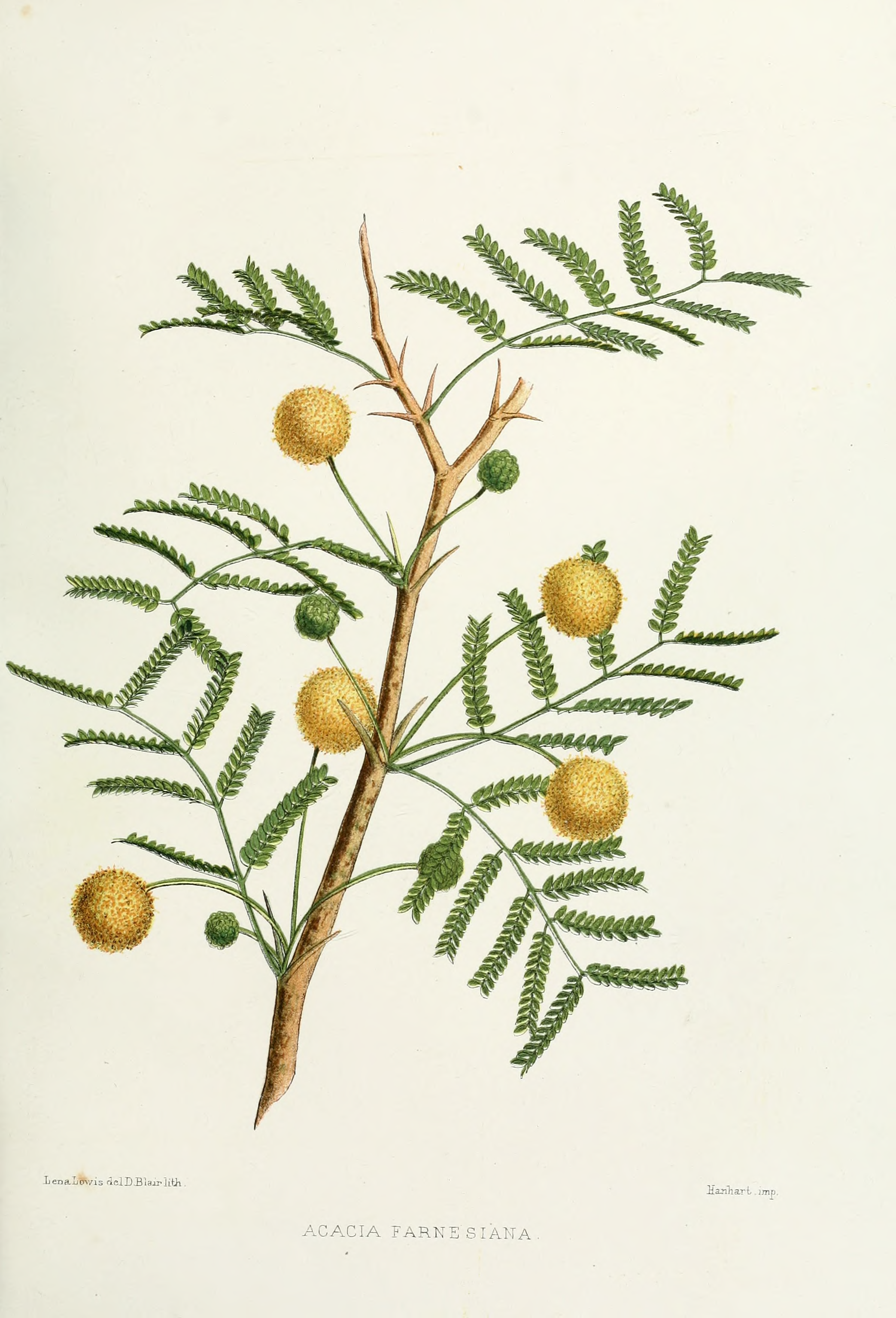 Colour drawing of acacia from Familiar Indian Flowers (1878) by Lena Lowis.